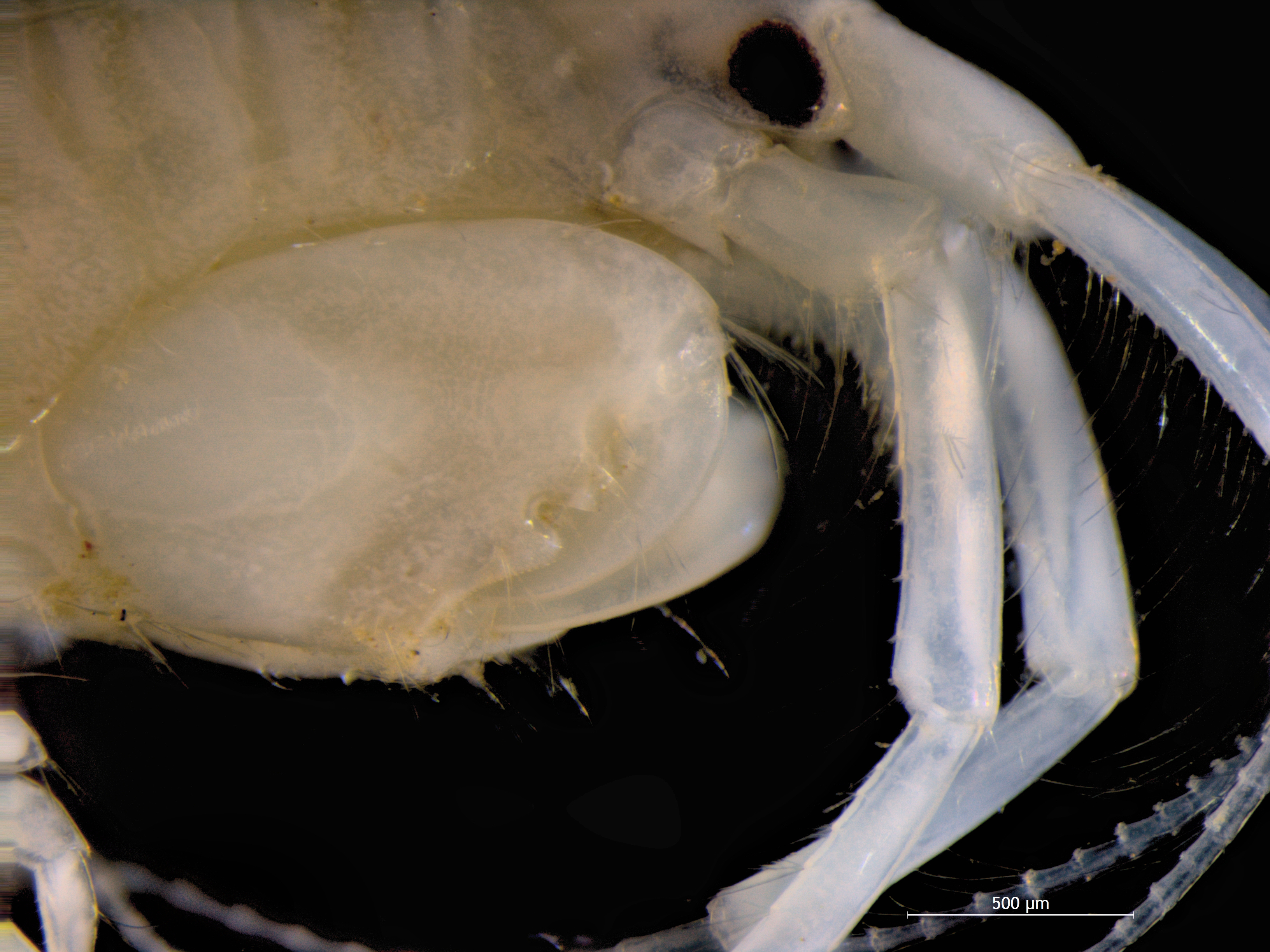 Detail of the second gnathopod of a benthic amphipod, taken with Leica DFC 490 camera mounted on a Leica M205C binocular microscope (habitus). Collected in 2012 on the Bligh Bank in the Belgian part of the North Sea. Length of gnathopod propodus= ~1.5 mm Focus stacking of 24 pictures.